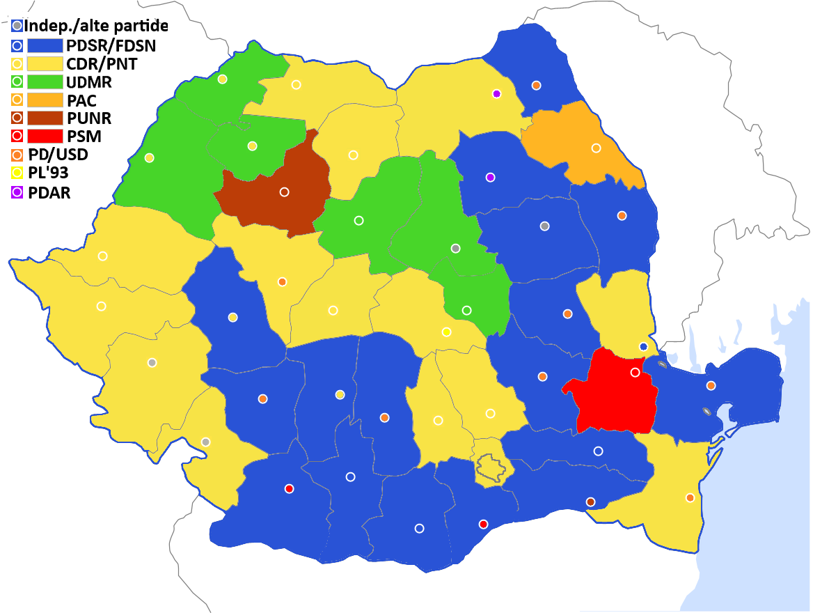 1996 Romanian local elections: map based on the party with the biggest number of votes in the county(county council) and on the party of the elected mayors of county residences and the capital of Romania. Legend: blue=Party of Social Democracy in Romania(PDSR) tan=Romanian Democratic Convention(CDR) green=Democratic Alliance of Hungarians in Romania (UDMR) light orange=Civic Alliance Party(PAC) dark orange= Democratic Party/Social Democratic Union(PD) brown=Romanian National Unity Party (PUNR) red= Socialist Party of Labour (PSM) yellow=Liberal Party '93(PL'93) purple= Romanian Democratic Agrarian Party(PDAR) grey=independents/other parties